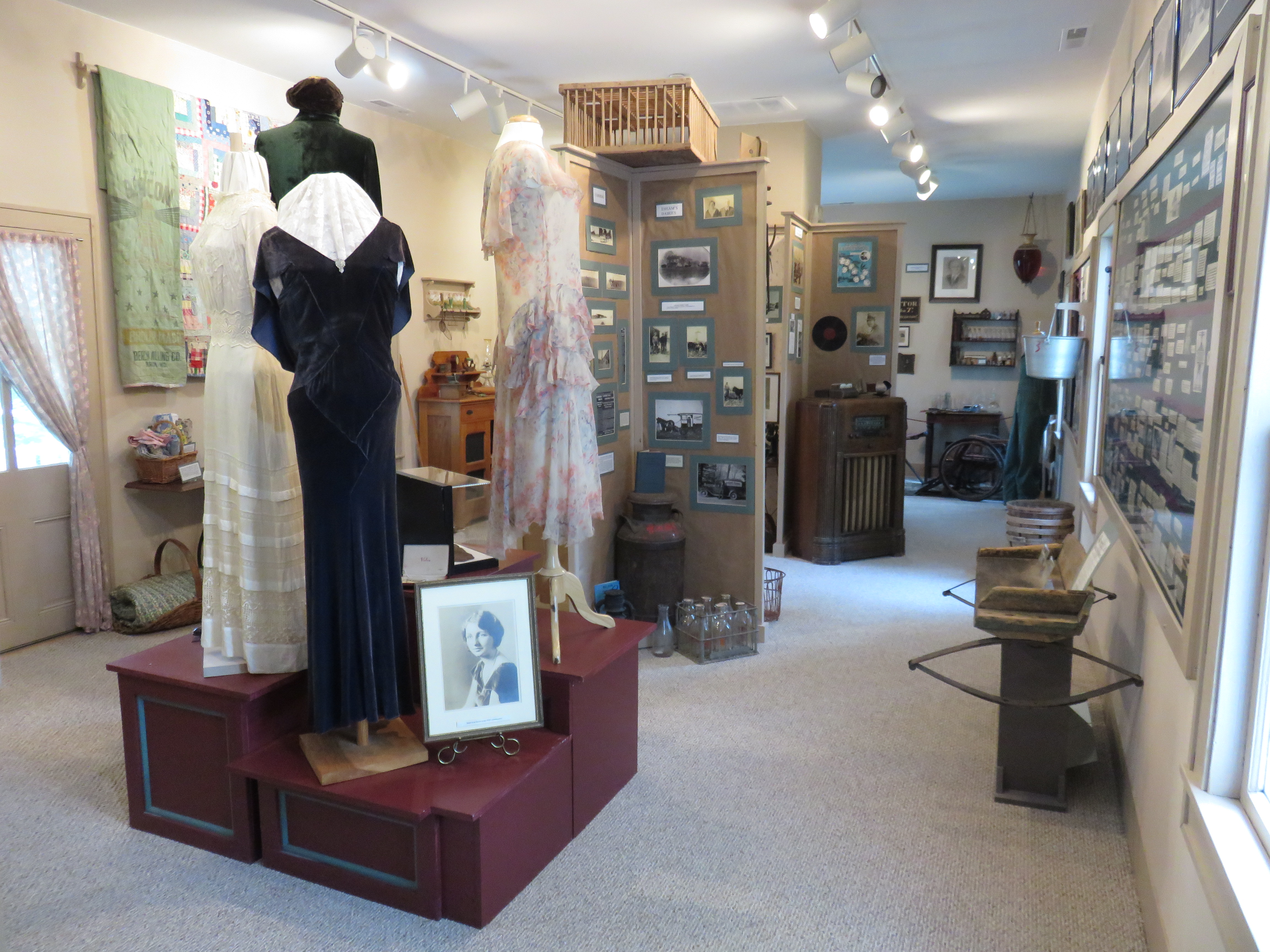 Room on second floor of Calvin B. Taylor House in Berlin, Maryland in 2019